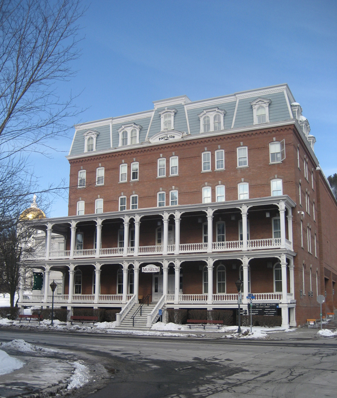 The Pavilion, Montpelier, Vermont. A government building housing the working offices of the governor of Vermont. 10.02.07, Jim Hood